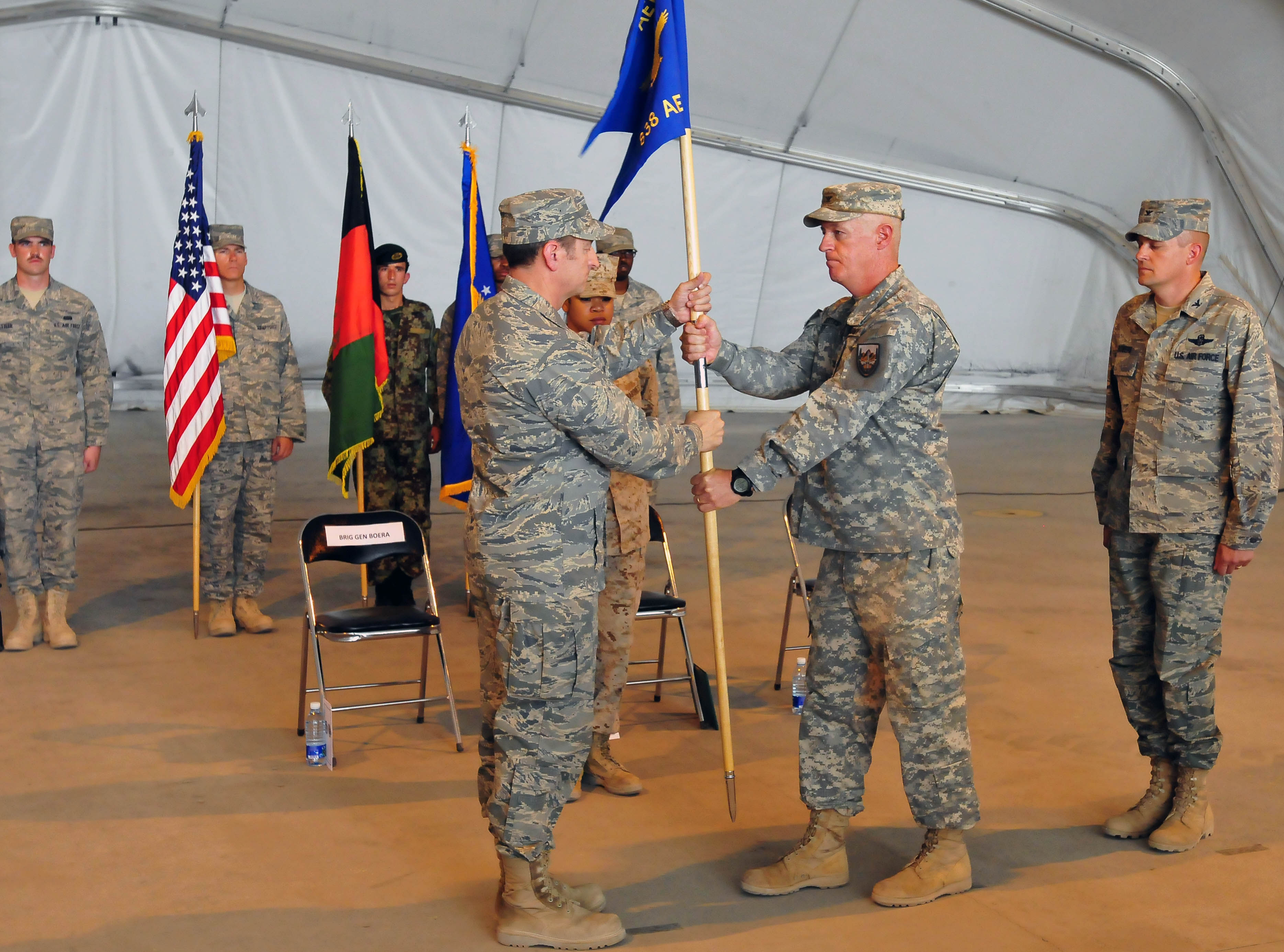 100714-N-6031Q-014 Shindand, Afghanistan -- 838 Air Expeditionary Advisory Group change of command ceremony help at the Shindand Air base, Afghanistan on July 14, 2010. U.S. Army Col. Mike Senters was relieved by U.S. Air Force Col. Larry Bowers. (U.S. Navy photo by Mass Communication Specialist 2nd Class David Quillen/RELEASED).